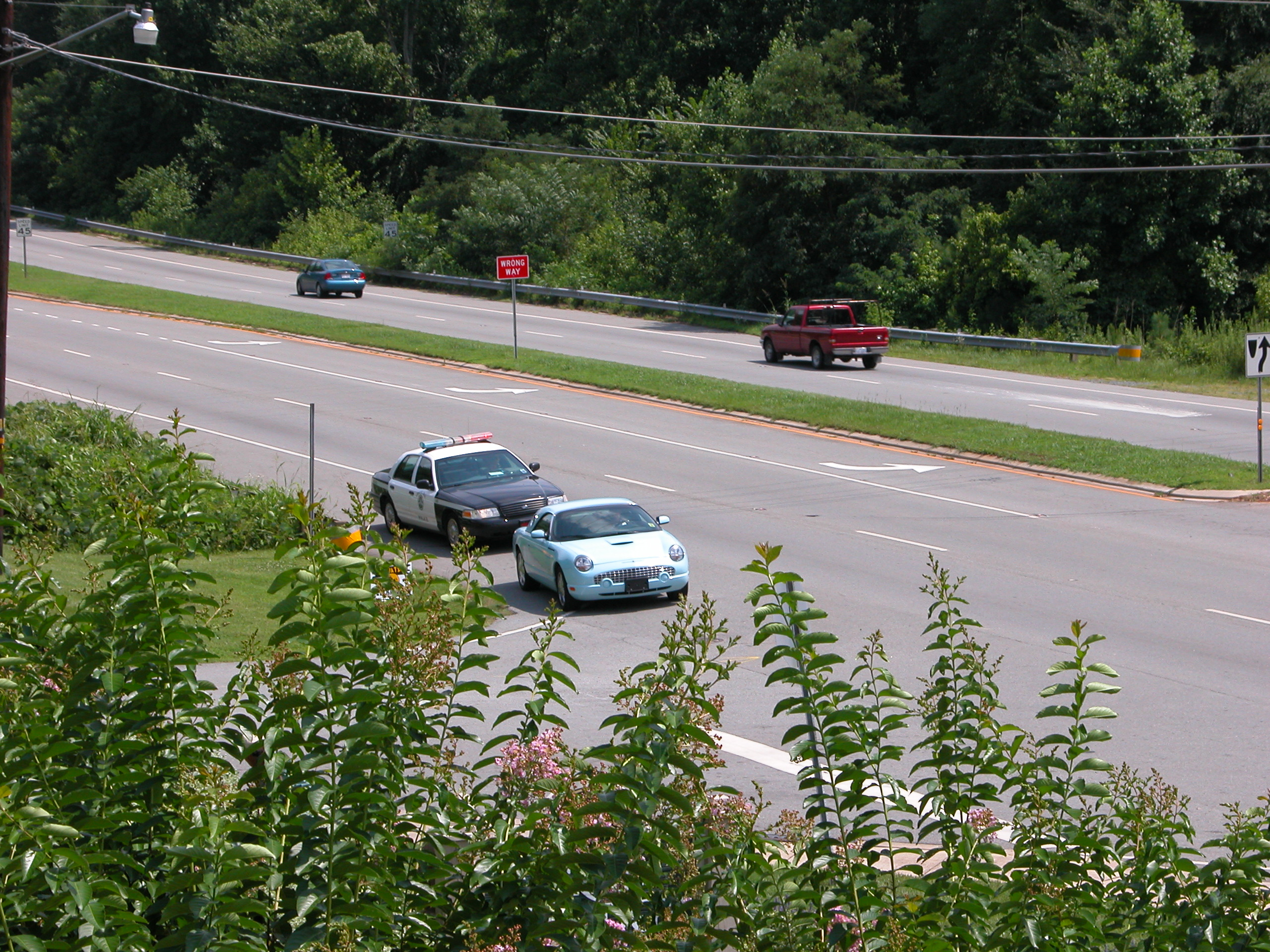 A City of Chapel Hill, North Carolina police cruiser stopped a motorist on US 15-501.